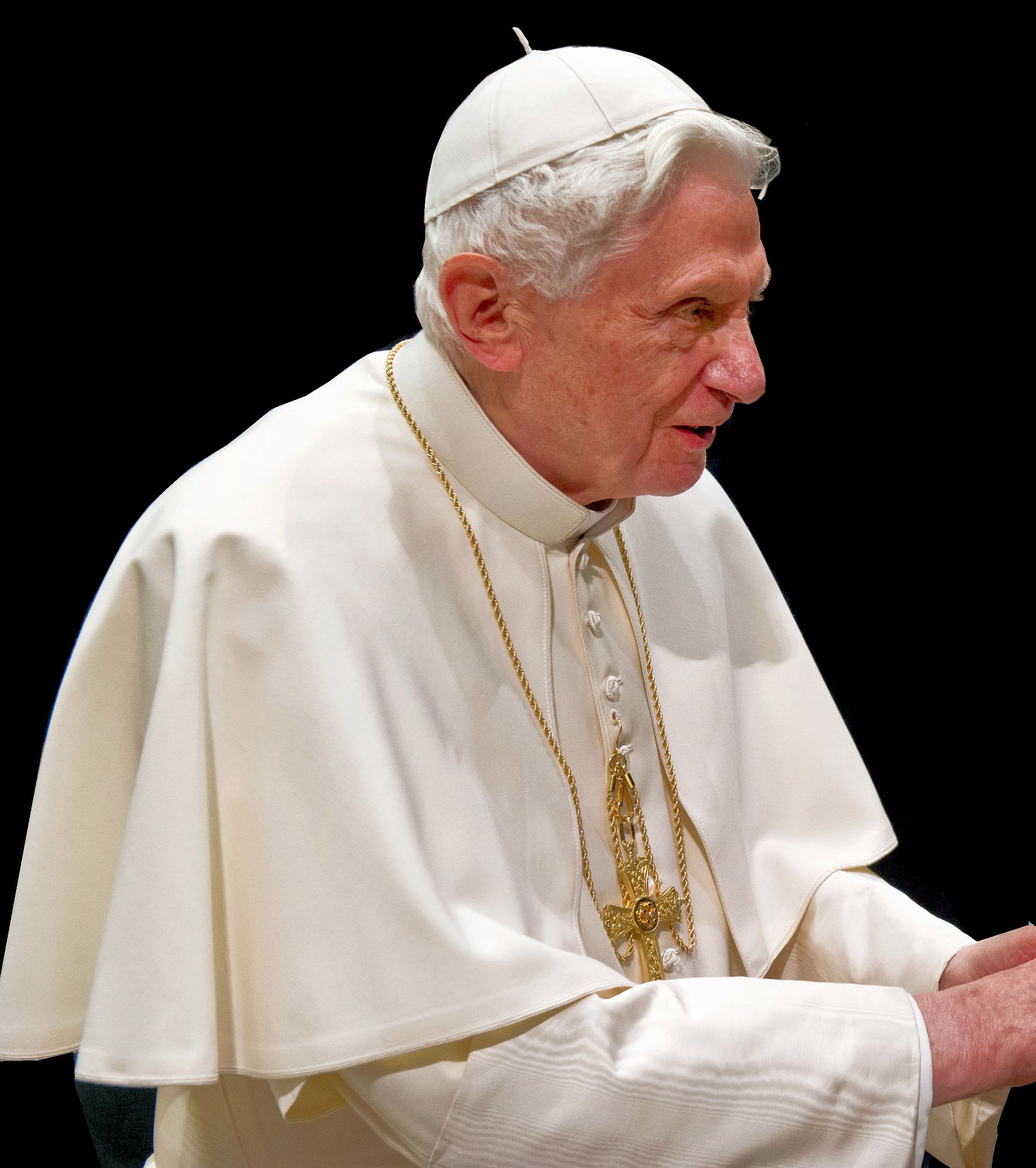 Pope Benedict XVI, during the pope's weekly general audience at the Vatican in Vatican City, Jan. 16, 2013. Picture has been cropped.